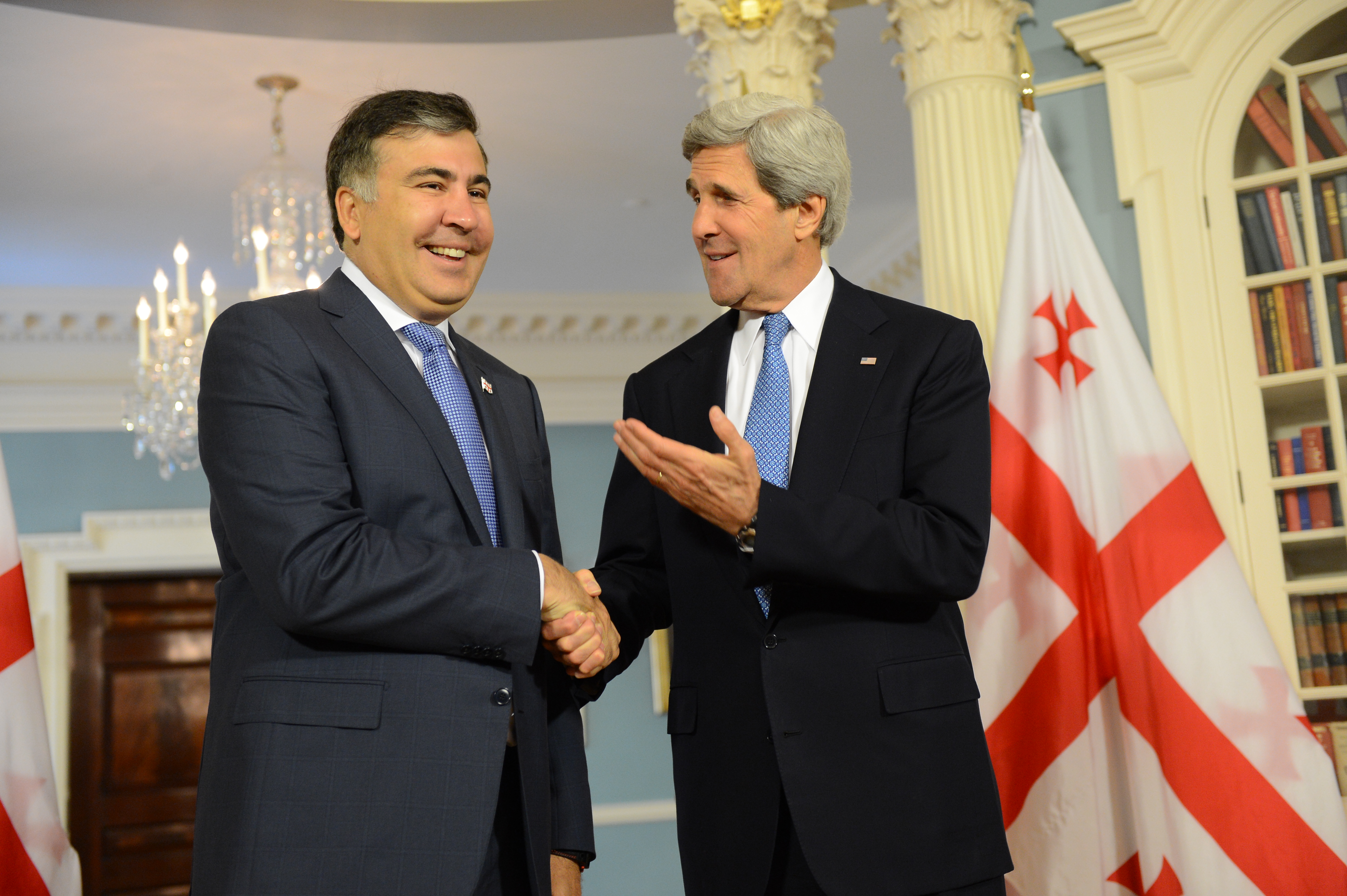 U.S. Secretary of State John Kerry meets with Georgian President Mikheil Saakashvili at the U.S. Department of State in Washington, D.C., on May 1, 2013. [State Department photo/ Public Domain]